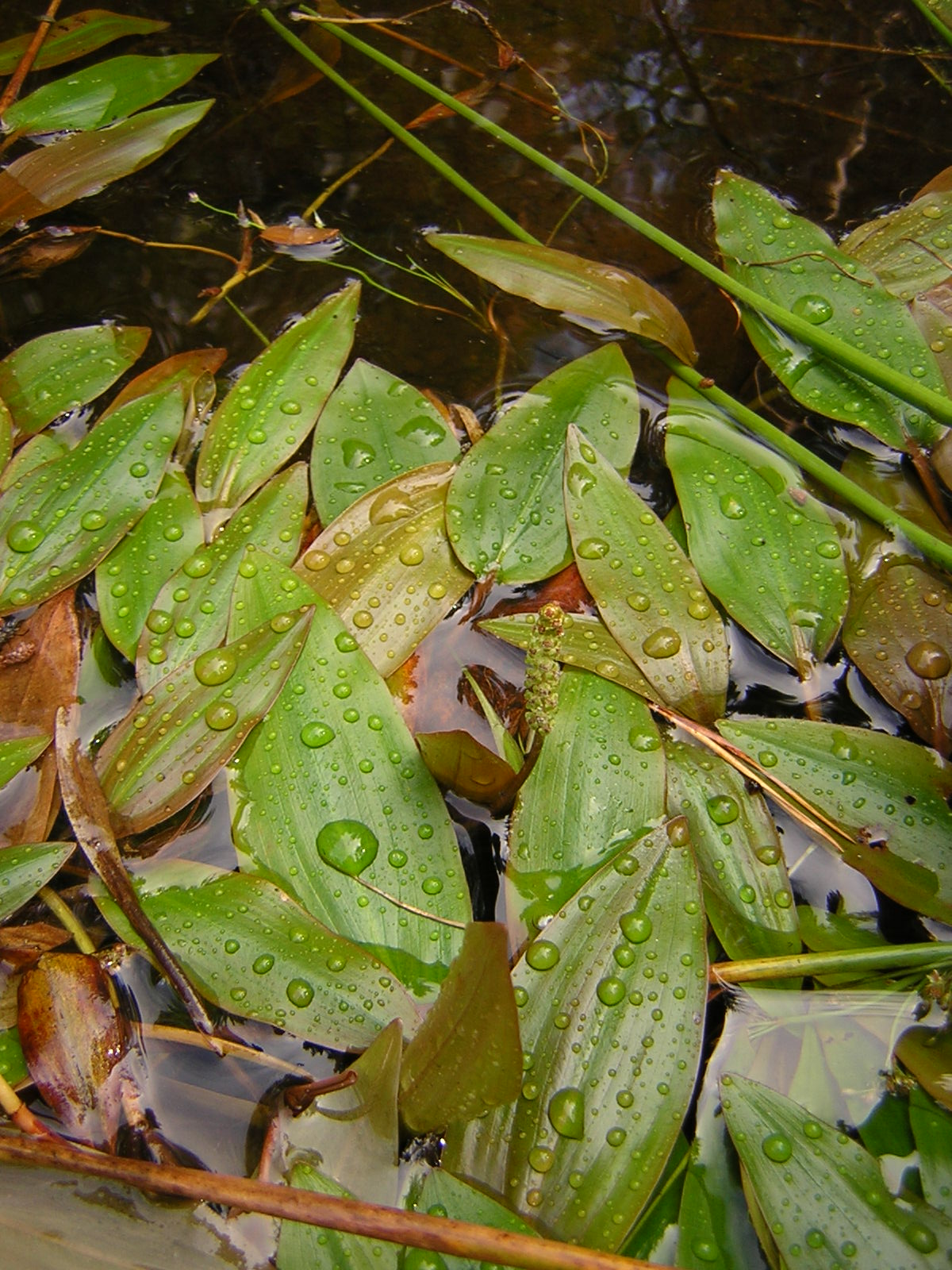 Potamogeton polygonifolius, leaves Author : Augustin Roche Source : [1]